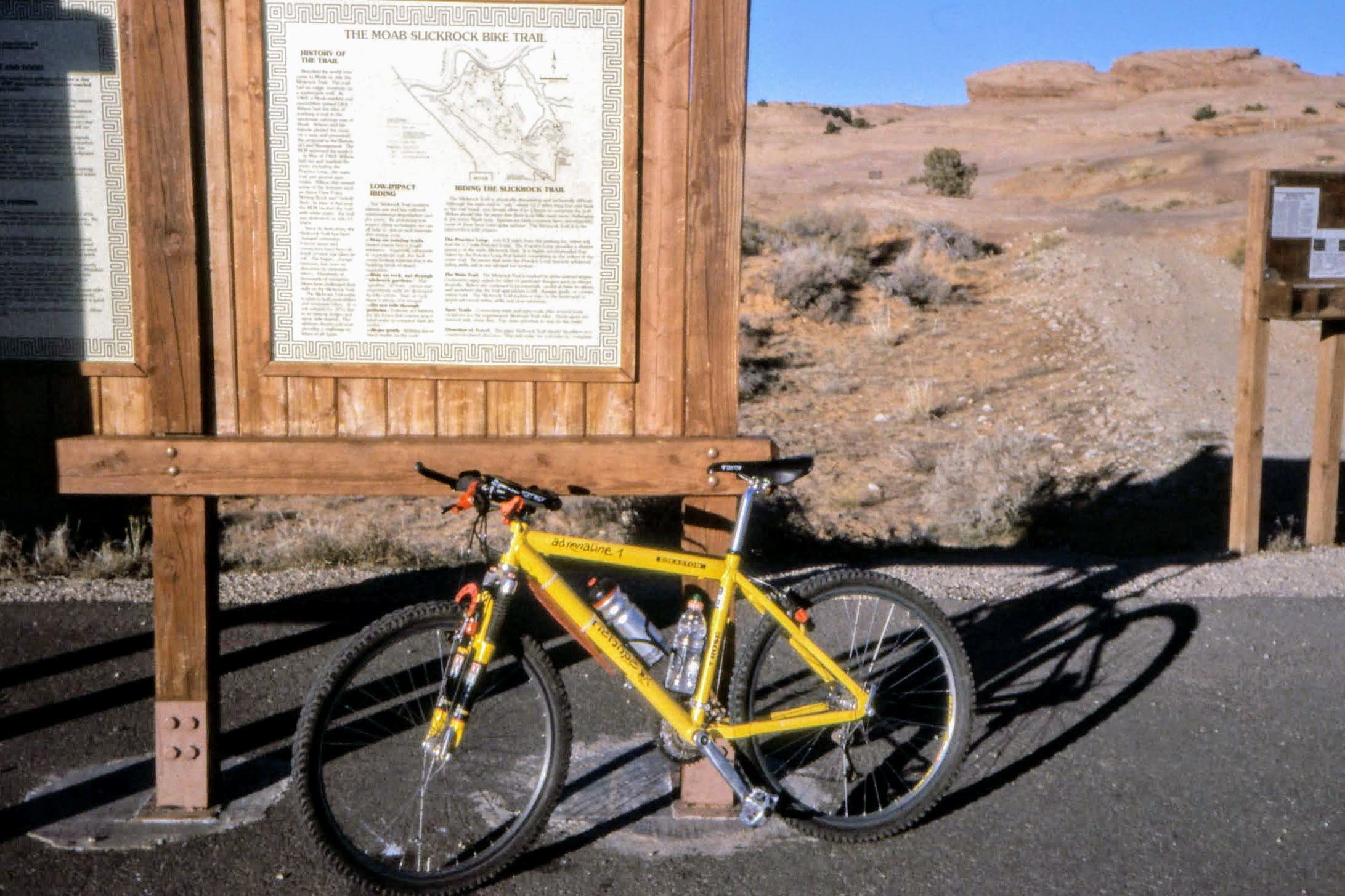 Starting point of Slickrock Bike Trail at the parking lot (Moab, Utah)